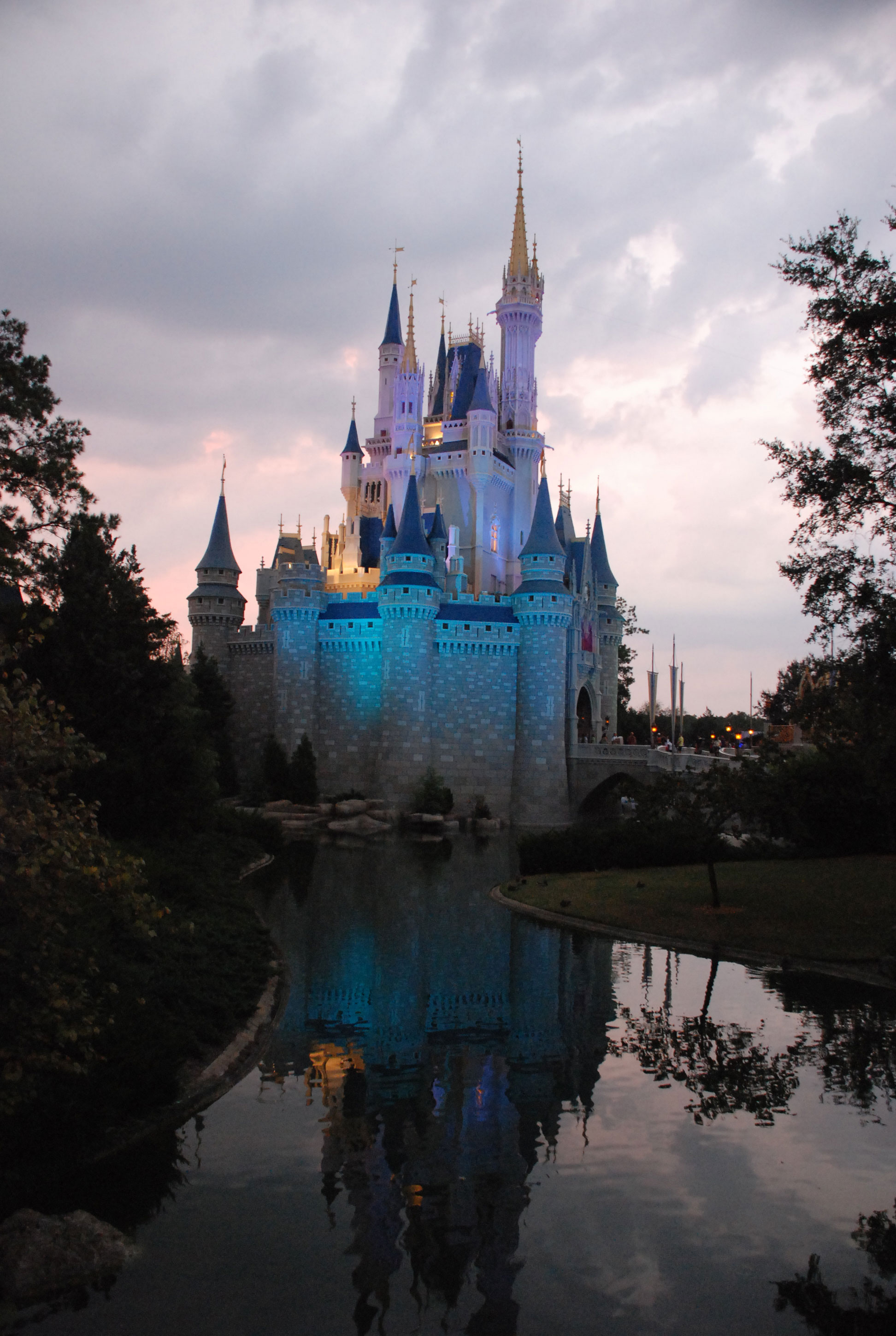 Cinderella Castle by night